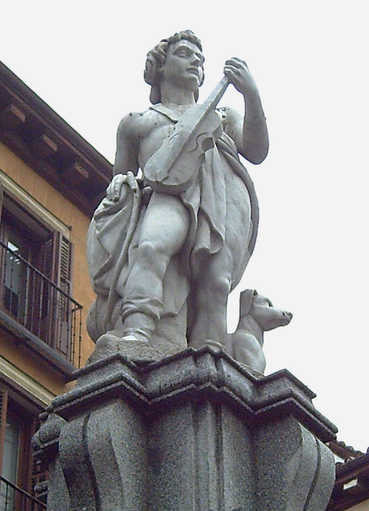 Statue of Orpheus. Detail of the Fountain of Orpheus at the Plaza de la Provincia (square) in Madrid (Spain).